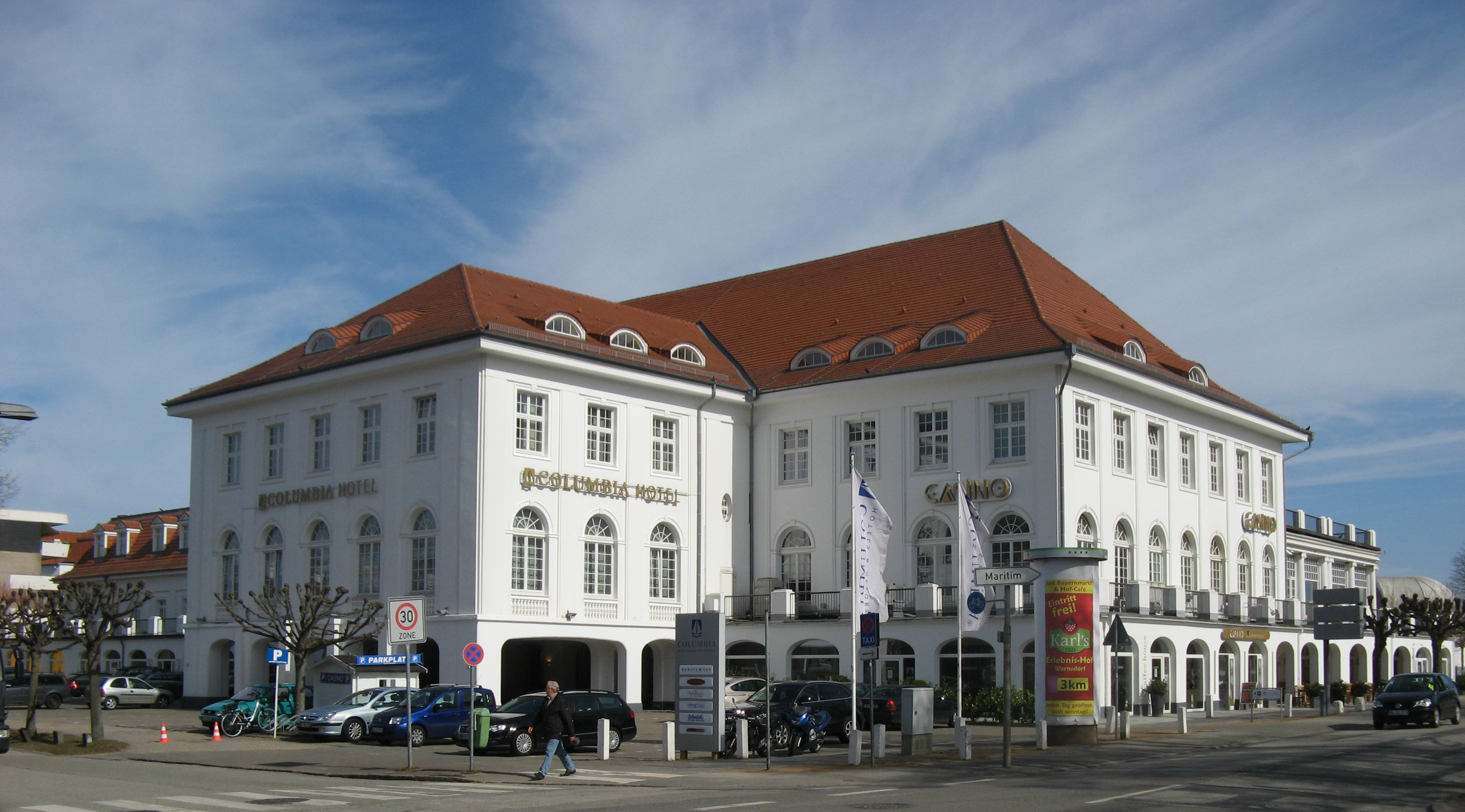 Casino in Travemünde